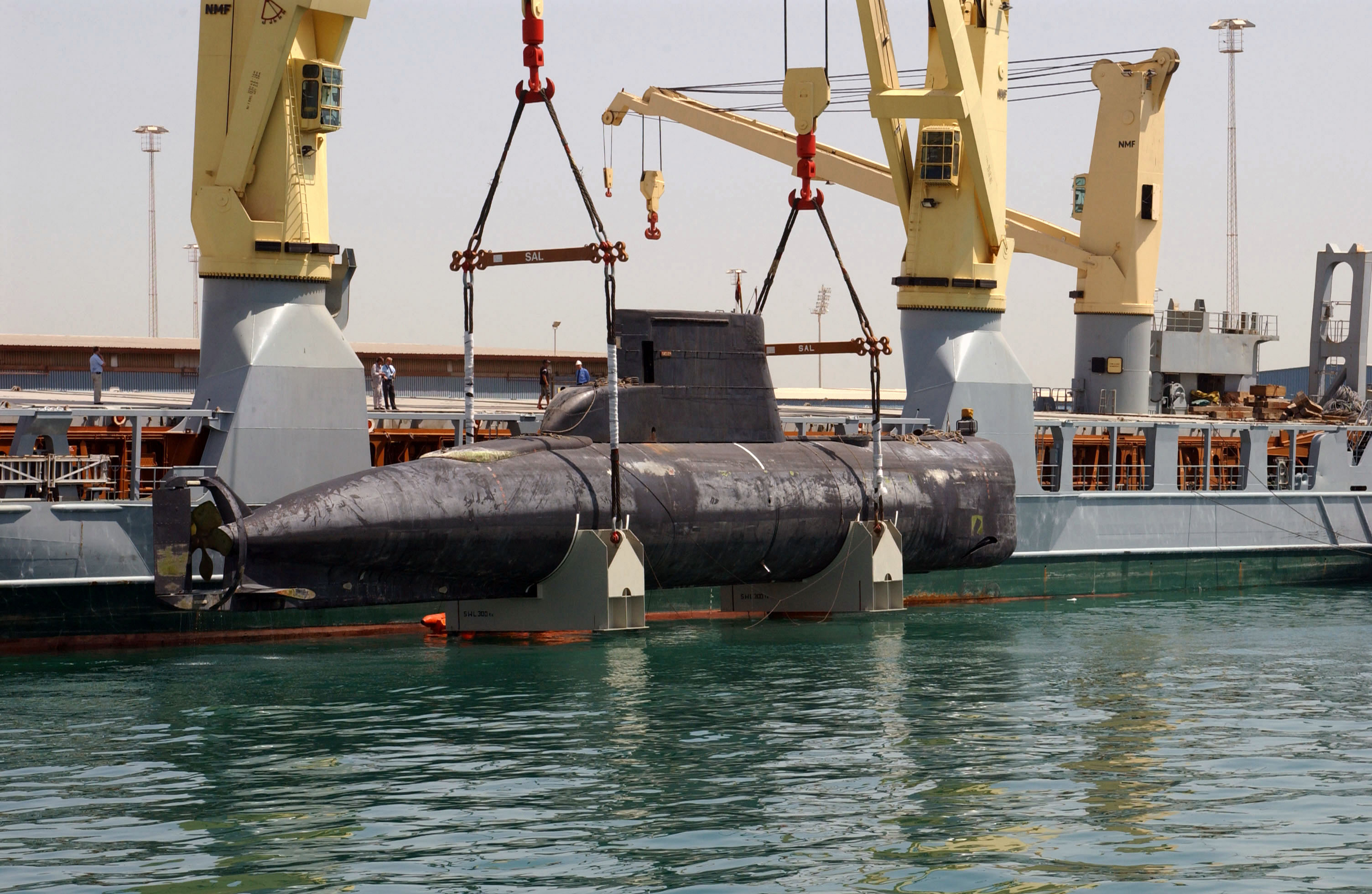 Manama, Bahrain (Jun. 11, 2003) — The Royal Danish Navy submarine Her Danish Majesty’s Ship HDMS Sælen is lifted aboard the German contract vessel Grietje. The submarine will be transported from Bahrain to Denmark inside the Grietje in the Danish Navy's first cost-saving trial. This vessel was formerly the Norwegian submarine KNM Uthaug of the Kobben-class. Information about Grietje may be found at IMO 9147708.A ship can change name and flag state through time, but the IMO number remains the same through the hull's entire lifetime. As a result, it can be useful to identify a ship by using the IMO number.